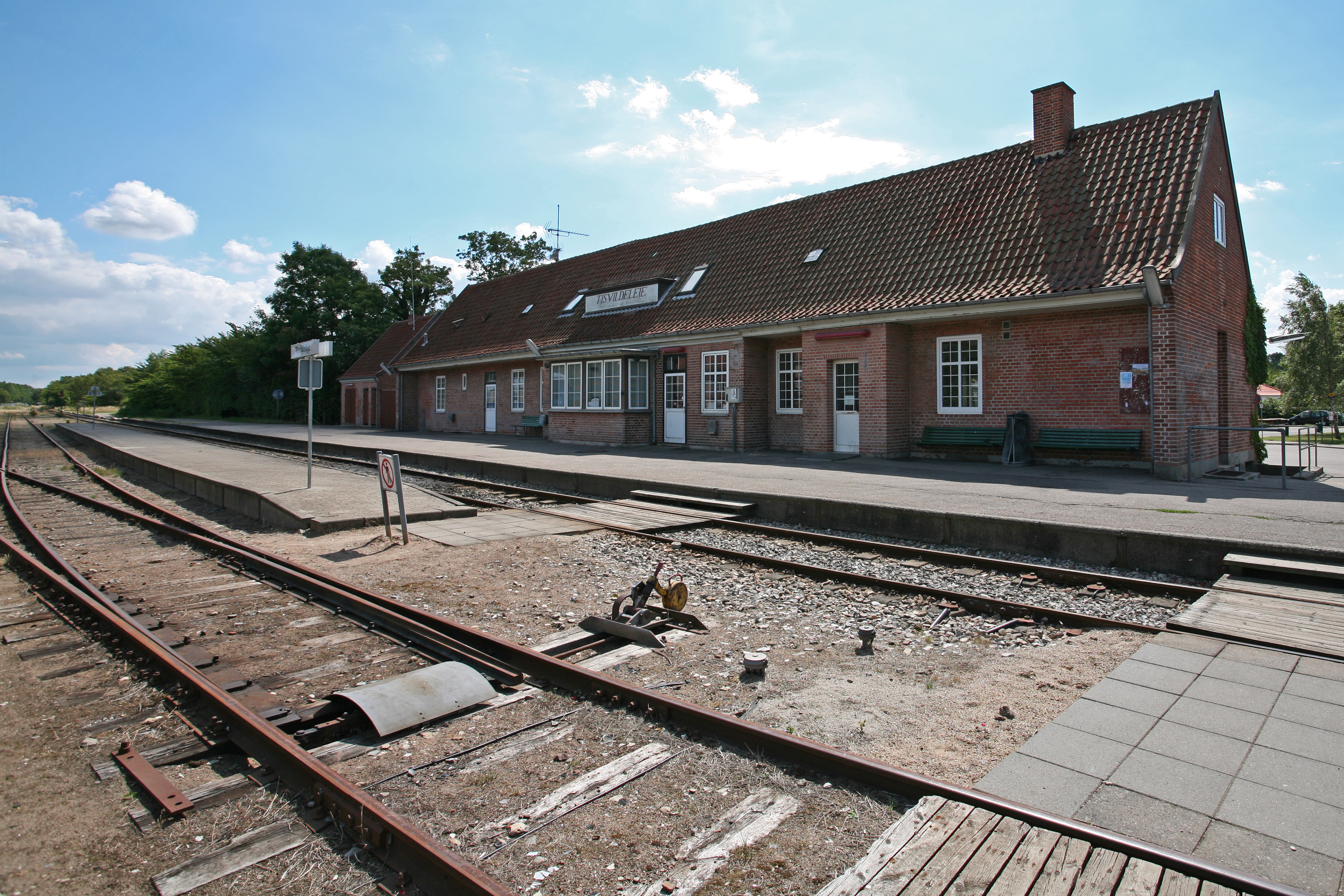 Picture of Tisvildeleje Railway Station (Tisvildeleje - Denmark)